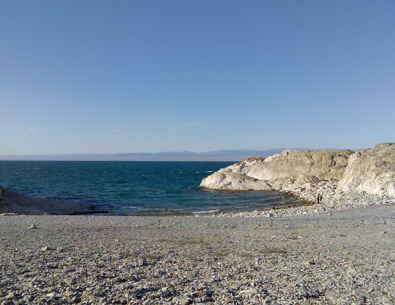 Khyargas Nuur